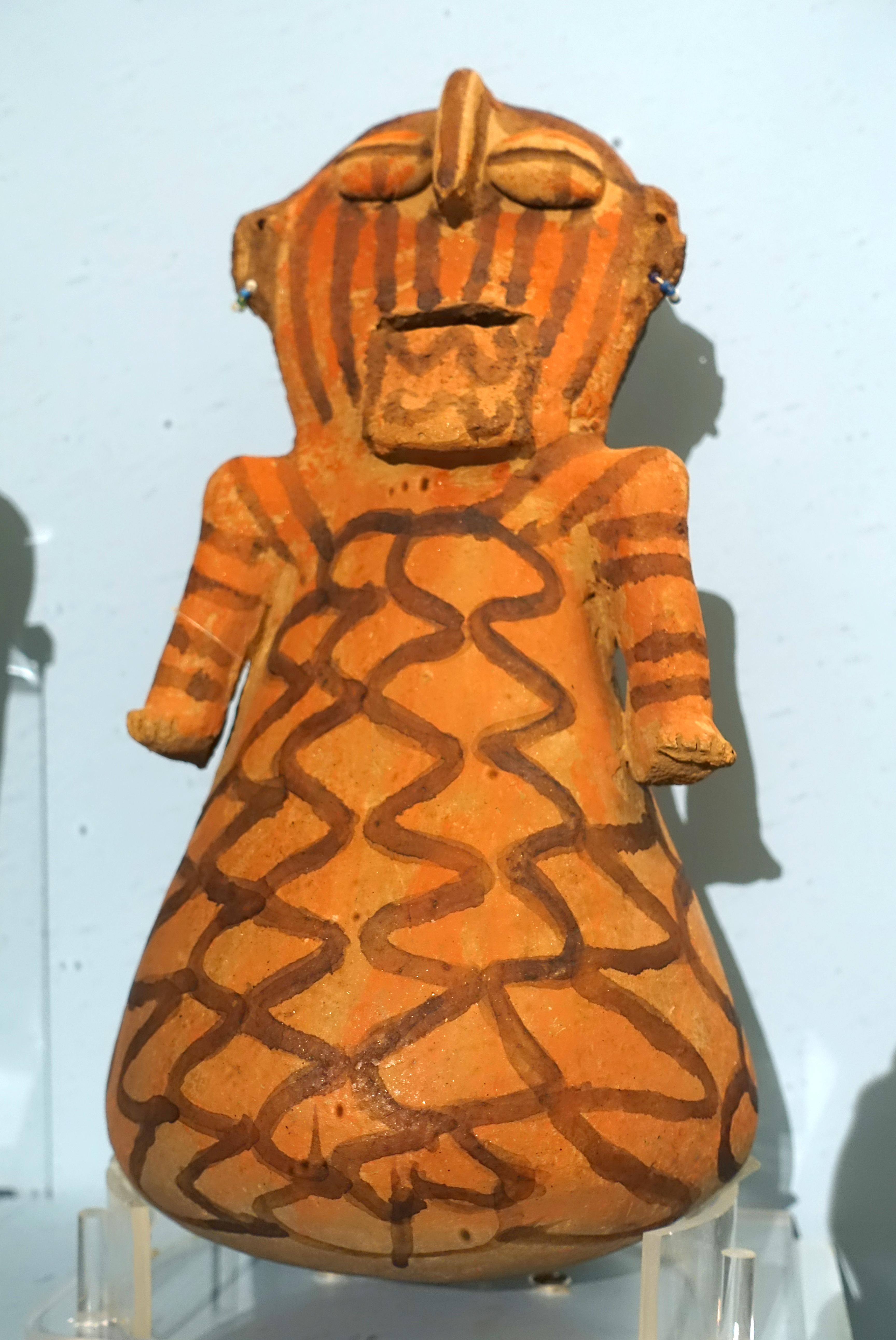 Exhibit from the Native American Collection, Peabody Museum, Harvard University, Cambridge, Massachusetts, USA. Photography was permitted without restriction; exhibit is old enough so that it is in the public domain.